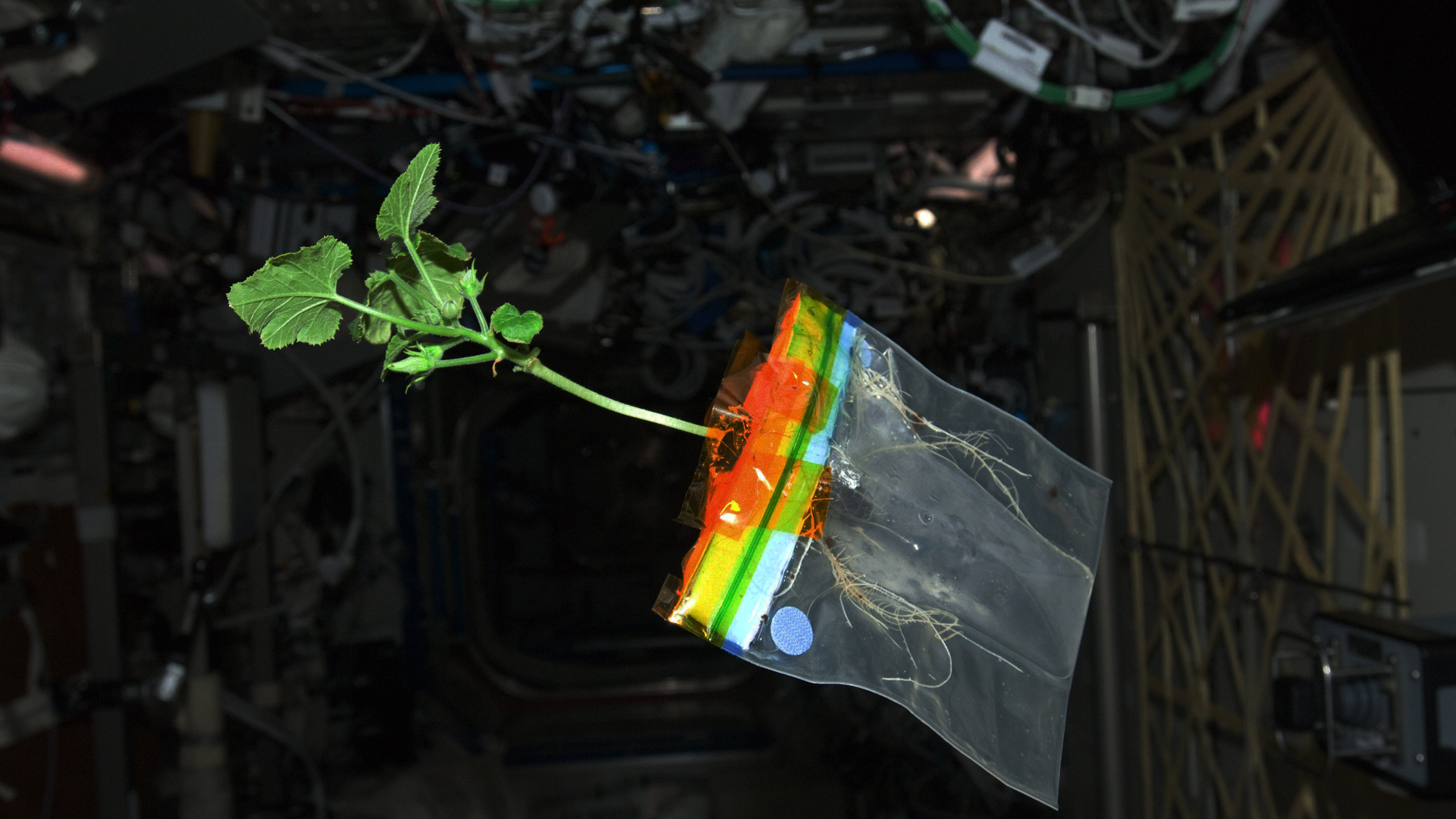 A zucchini plant, floating freely in the International Space Station’s Destiny laboratory, is featured in this image photographed by an Expedition 30 crew member.